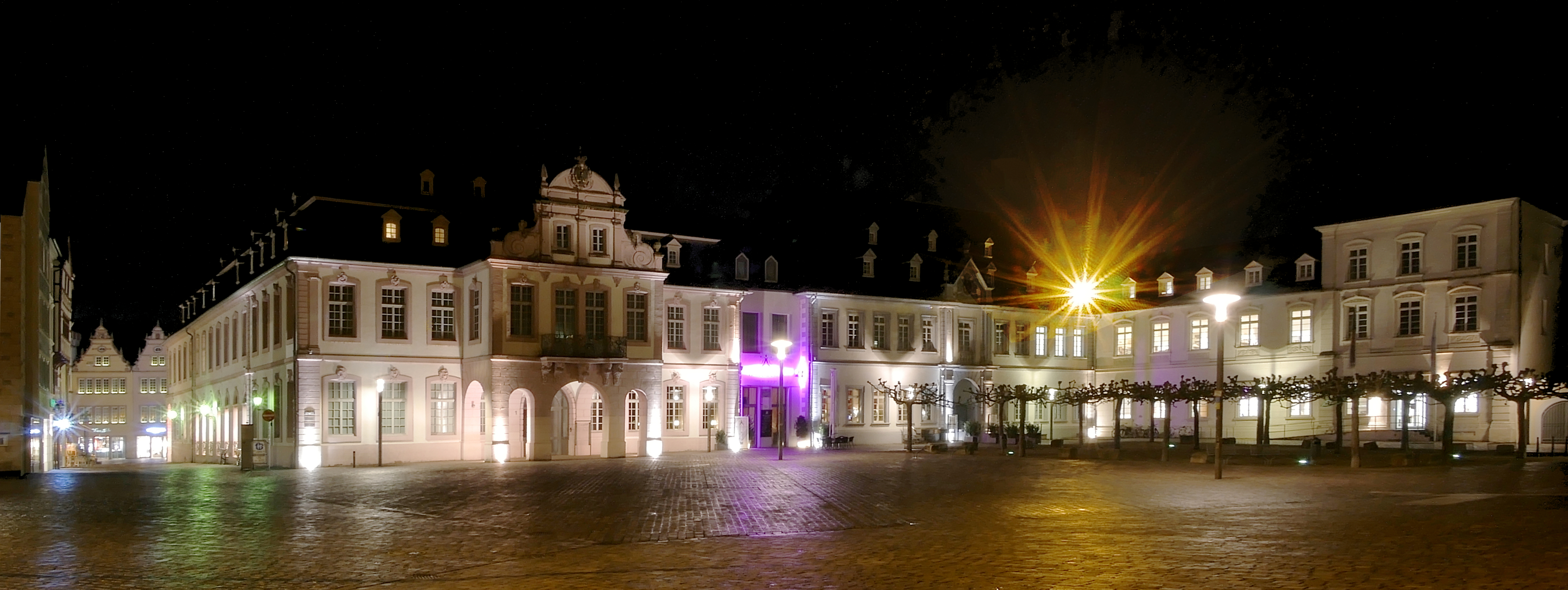 Trier, Domfreihof 1, Palais Walderdorff,18. and 19. century buildings